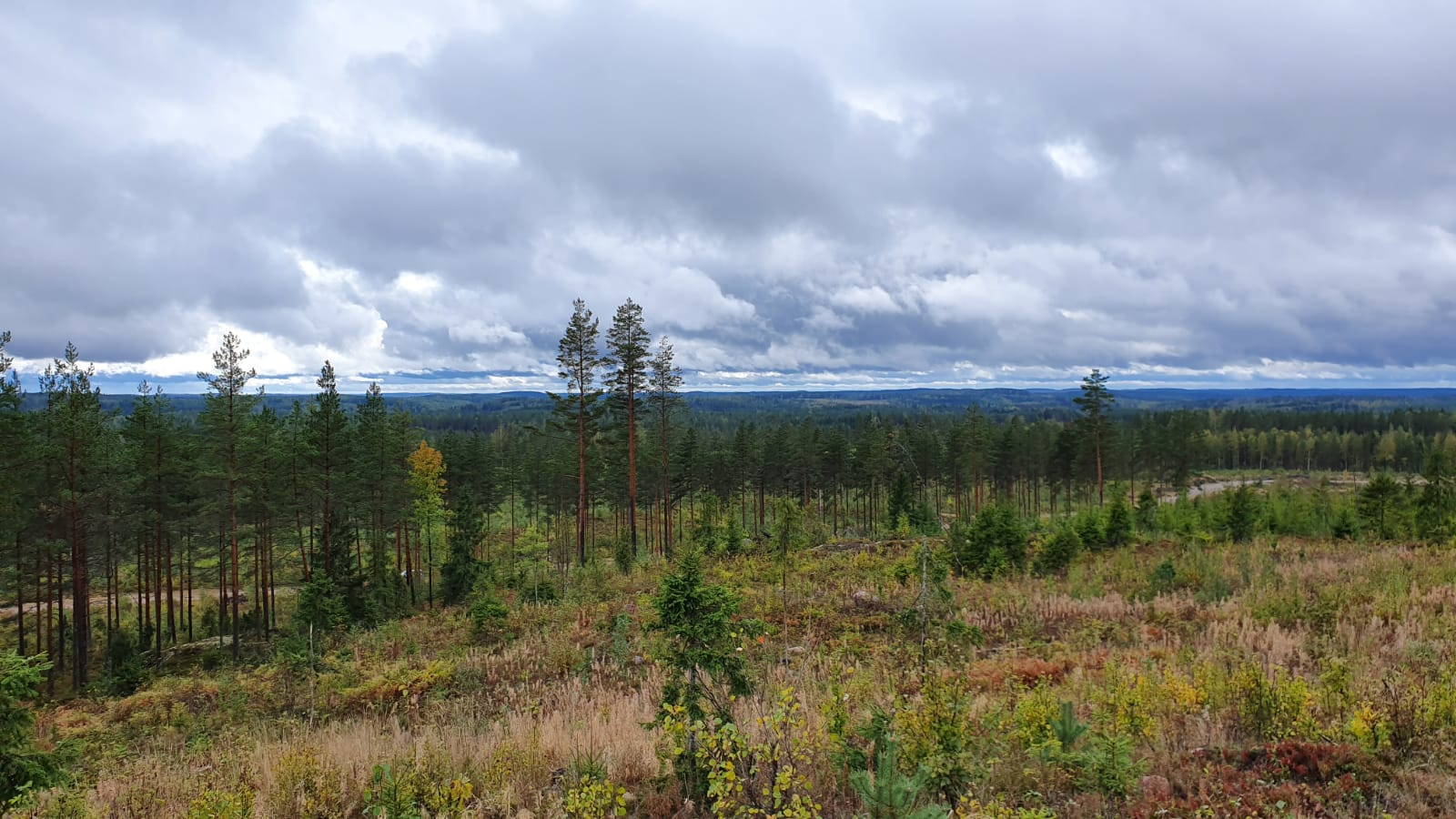 Loukkumäki in the fall of 2019.